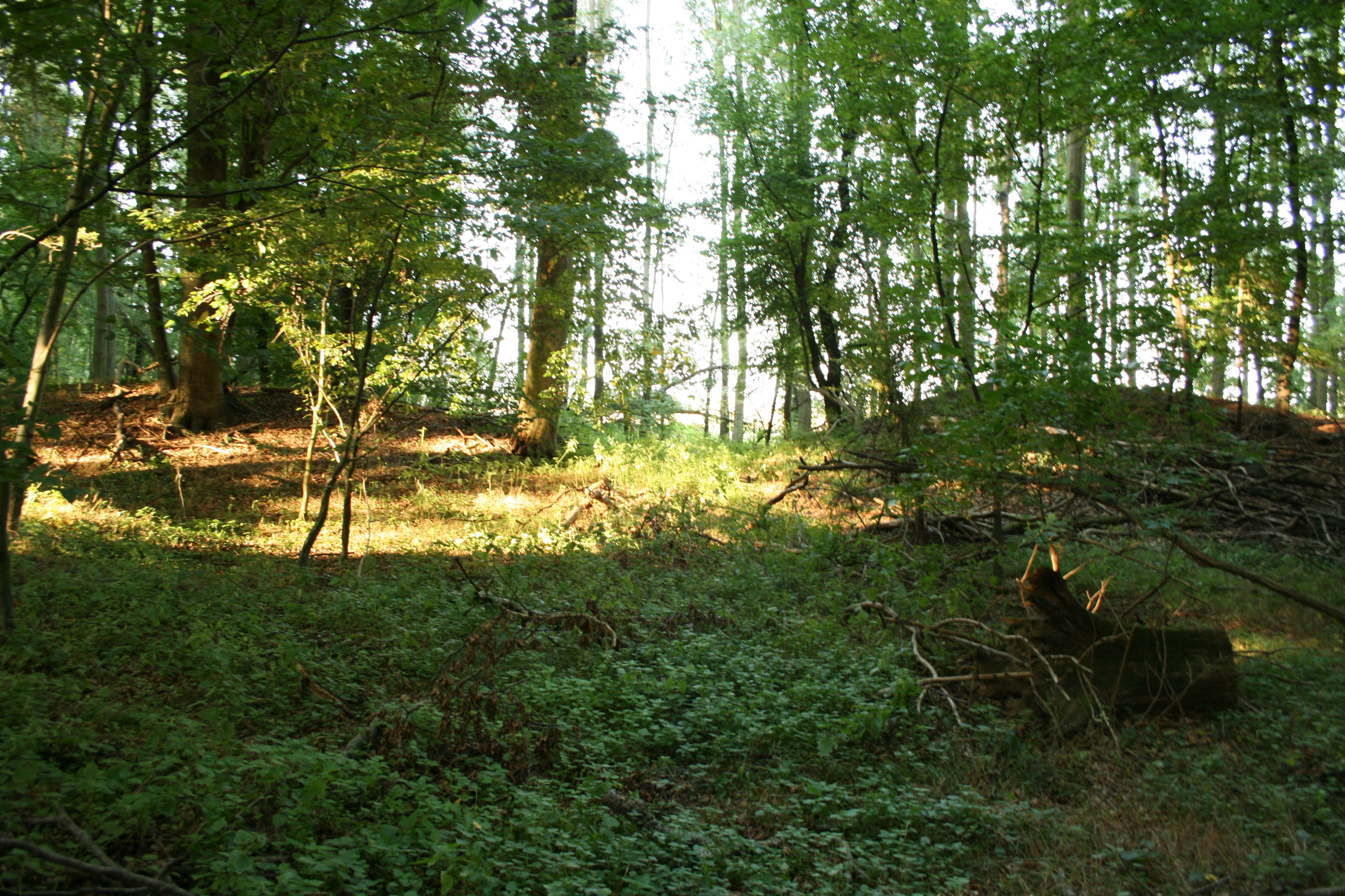 Castle Altenburg, Hanau-Mittelbuchen, Hesse.